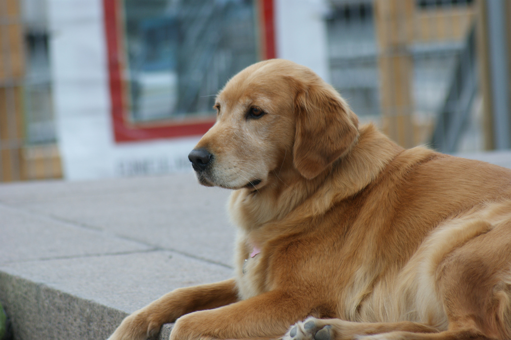 Canadian Golden Retriever, taken in Montreal, QC